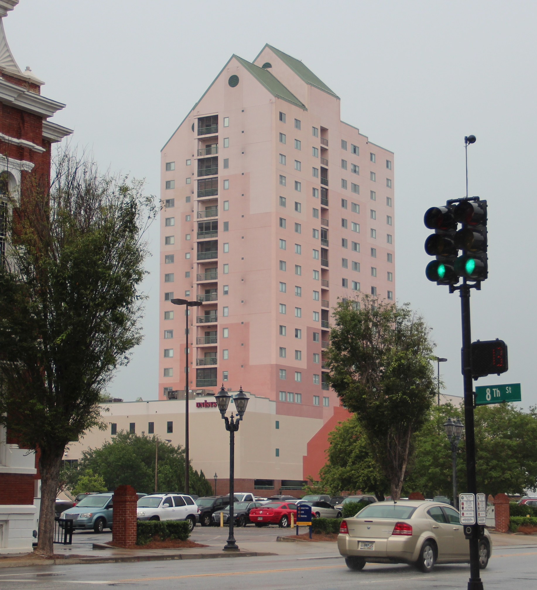 River Place Condominiums in Augusta